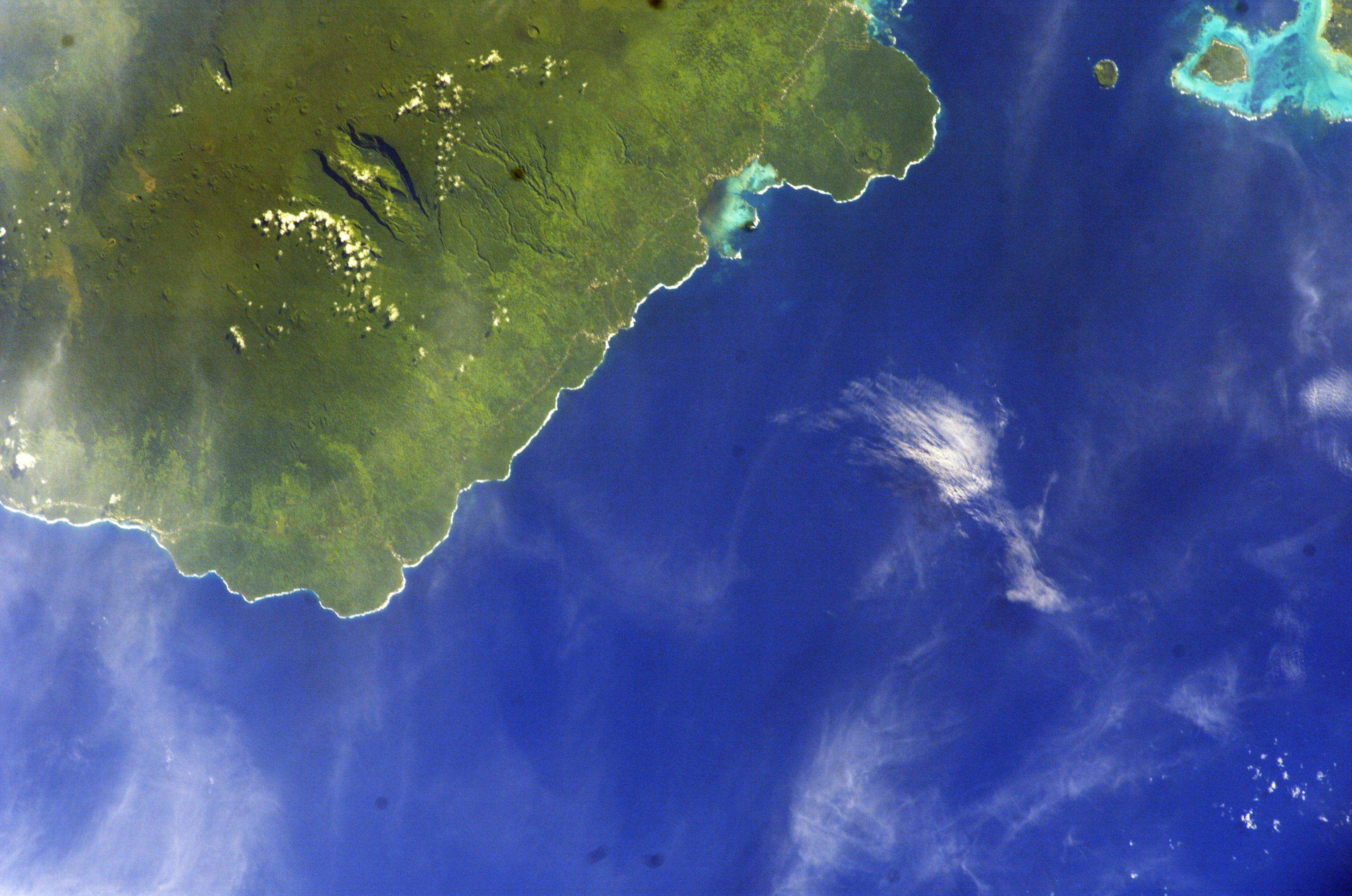 Savai'i island, south & east coasts, Palaui and Satupaitea districts.